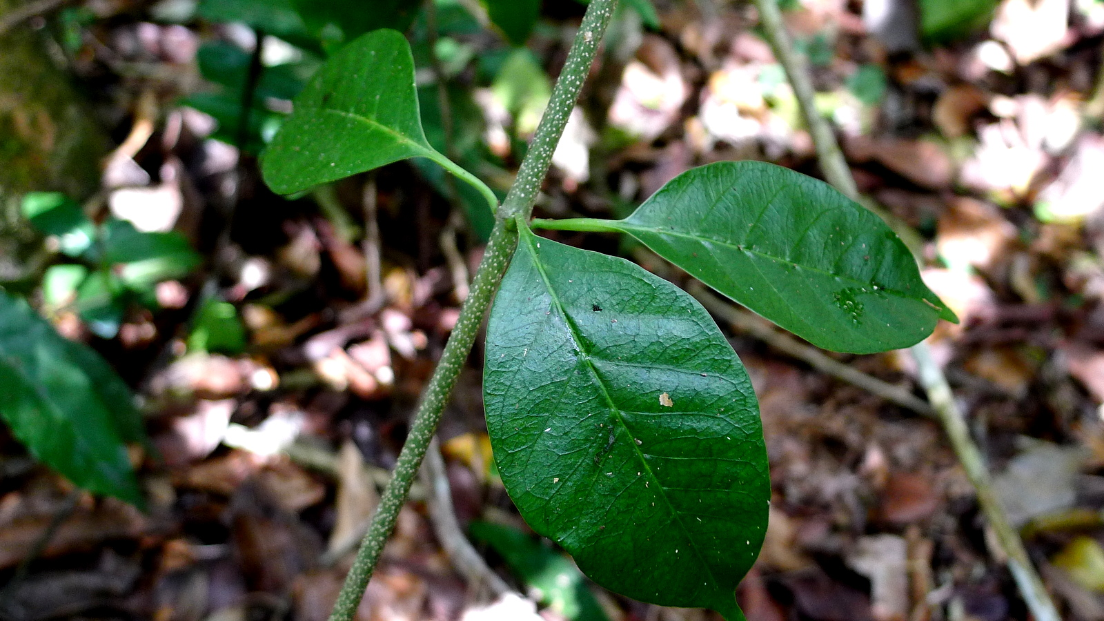 Condylocarpon sp., Apocynaceae, Atlantic forest, northeastern Bahia, Brazil